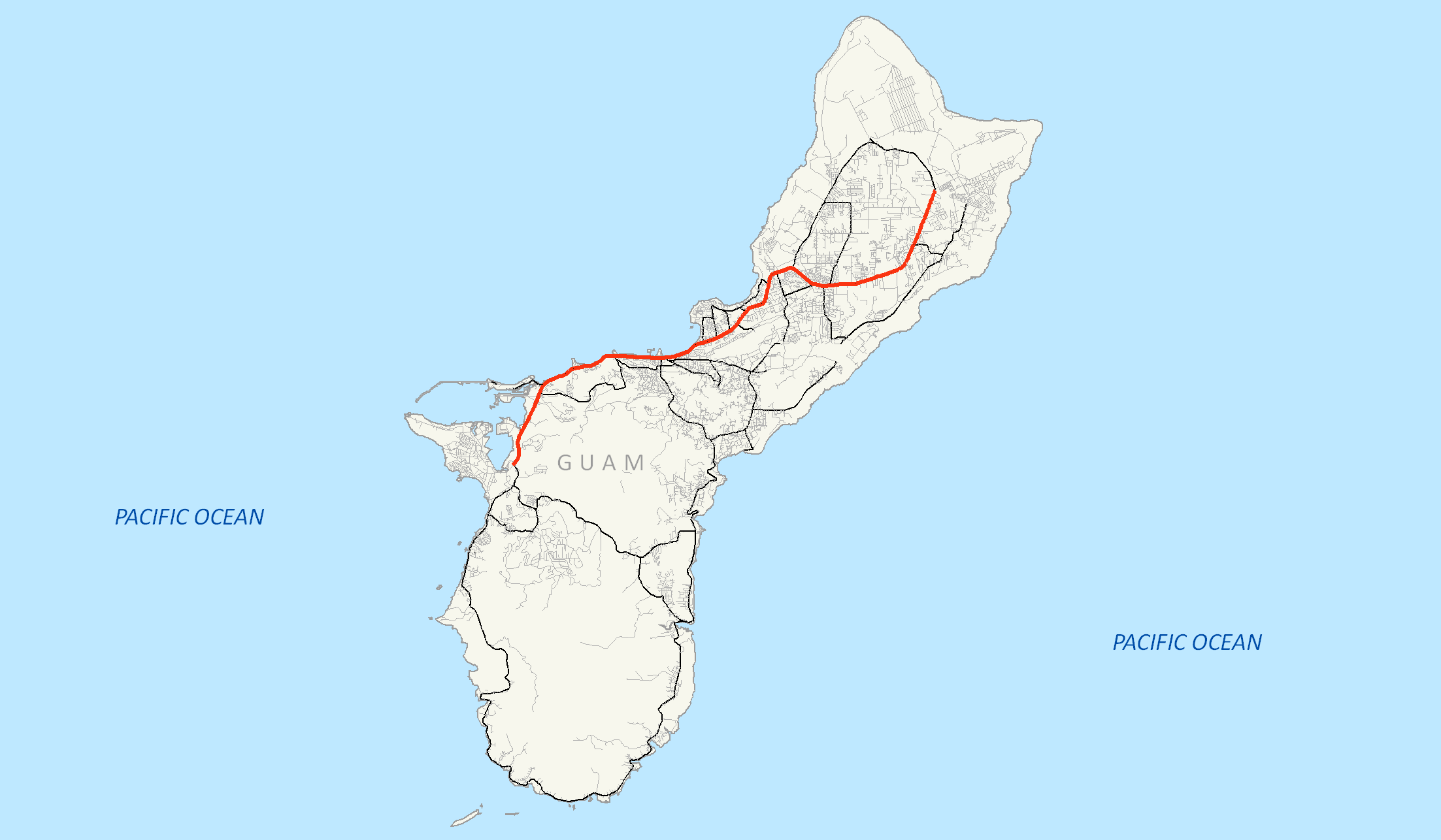 Map of Highway 1 in Guam